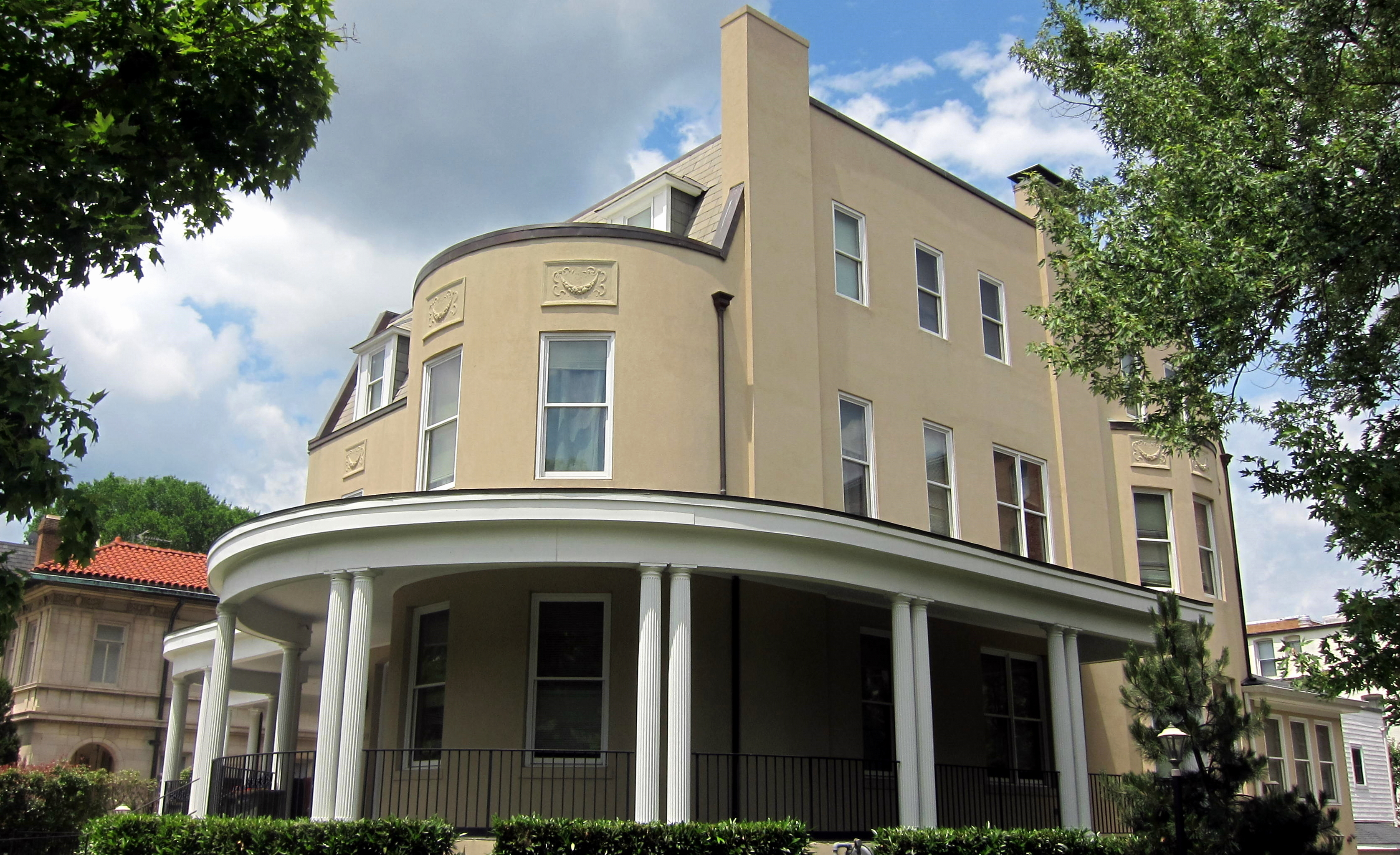 The veranda of the Embassy of the Republic of Macedonia (also known as the Moses House) — located at 2129 Wyoming Avenue, N.W., in the Sheridan-Kalorama neighborhood of Washington, D.C. Designed by Thomas Franklin Schneider in 1893, the building is in the Queen Anne style, with Neoclassical style architectural features. Now owned by the government of the Republic of Macedonia, it formerly served as the Embassy of France for almost 40 years. The embassy is designated as a contributing property to the Sheridan-Kalorama Historic District, and listed on the National Register of Historic Places in Washington, D.C. in 1989.